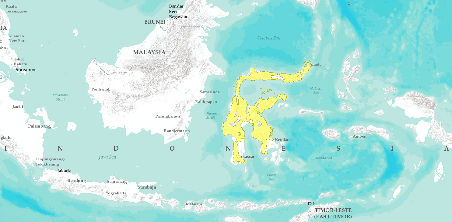 Location of the Sulawesi Goshawk Accipiter griseiceps (Indonesia).